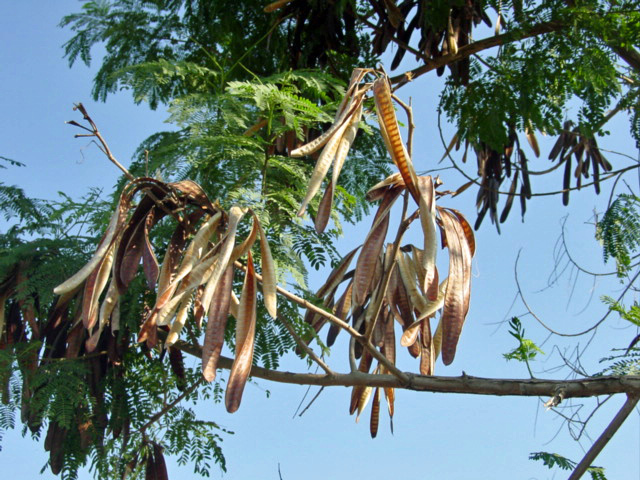 Dark seed pods with lots of hard brown seeds of Leucaena leucocephala. Photo by M. A. P. Accardo Filho.